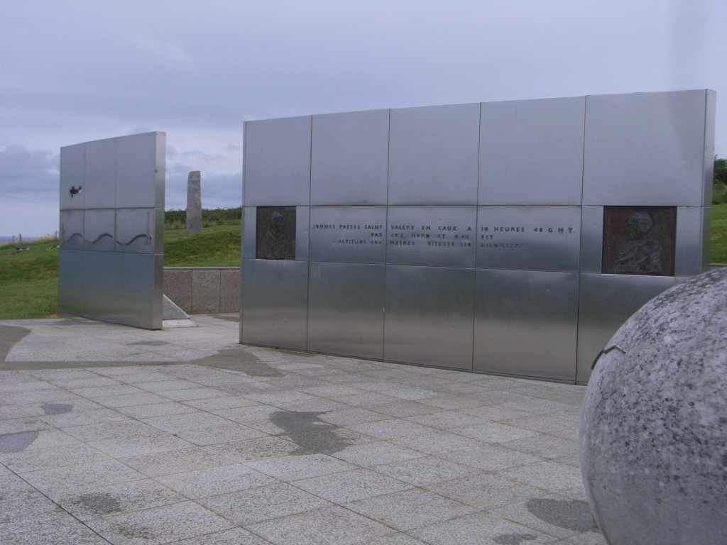 monument for the Pilots Dieudonné Costes and Maurice Bellonte in Saint-Valery-en-Caux, who crossed the Atlantic in 1930